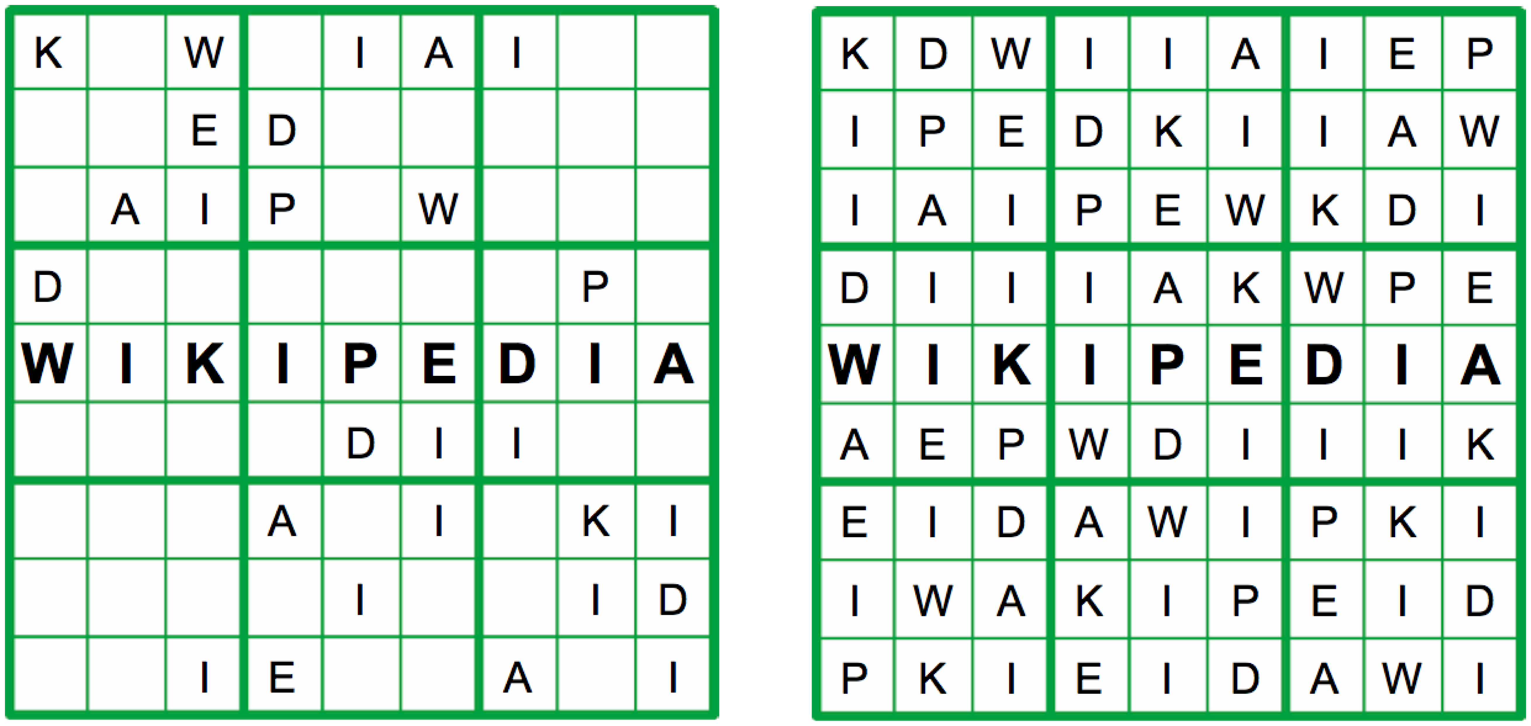 Didoku Sudoku puzzle and Solution with inscription WIKIPEDIA MiguelPalomo